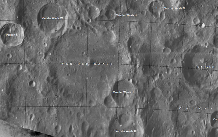 Except from the USGS Digital Atlas of the Moon.